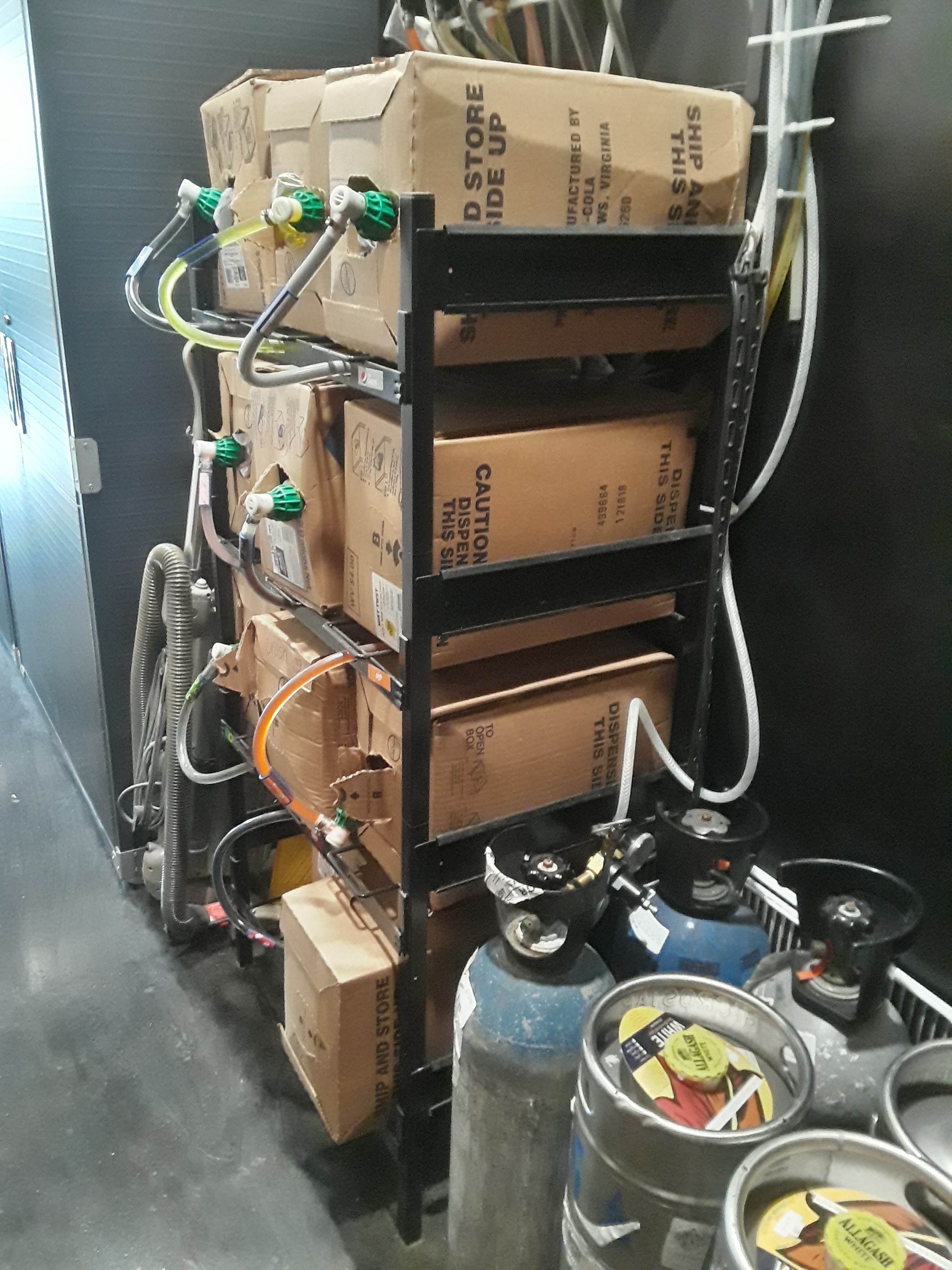 Soda syrups packaged for the fountain at Bozelli's Deli in Newington, Virginia